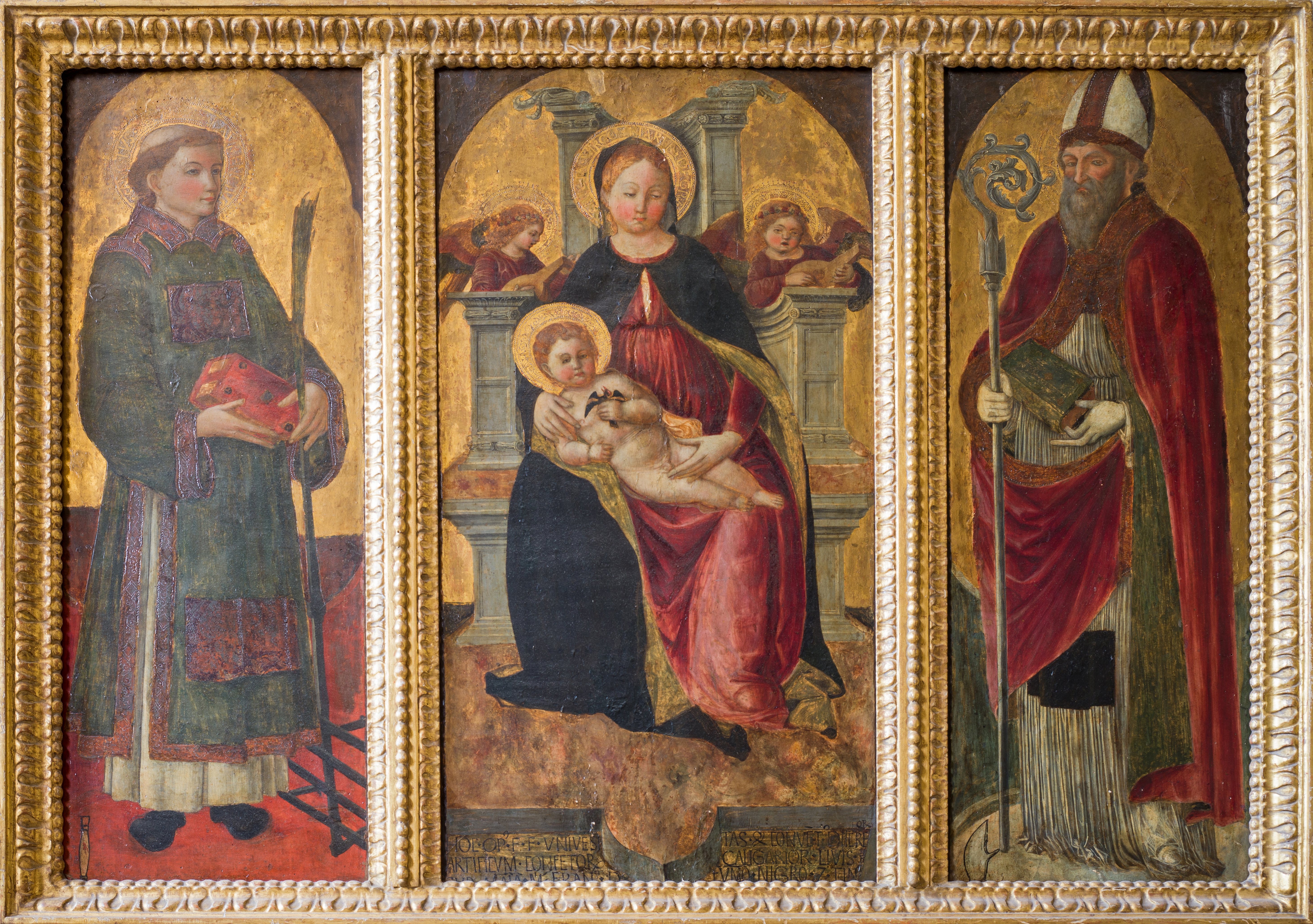 Tryptyc by Paolo da Caylina il Vecchio in the Santi Nazaro e Celso church in Brescia.